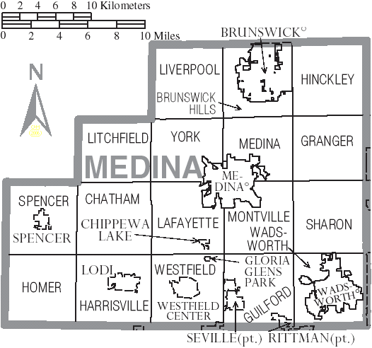 Map of Medina County, Ohio, United States with township and municipal boundaries